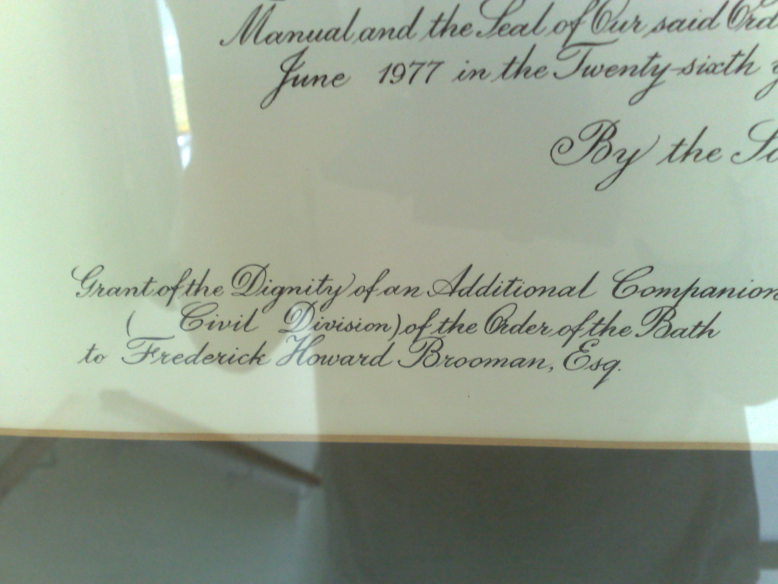 Citation of Fred Brooman CB